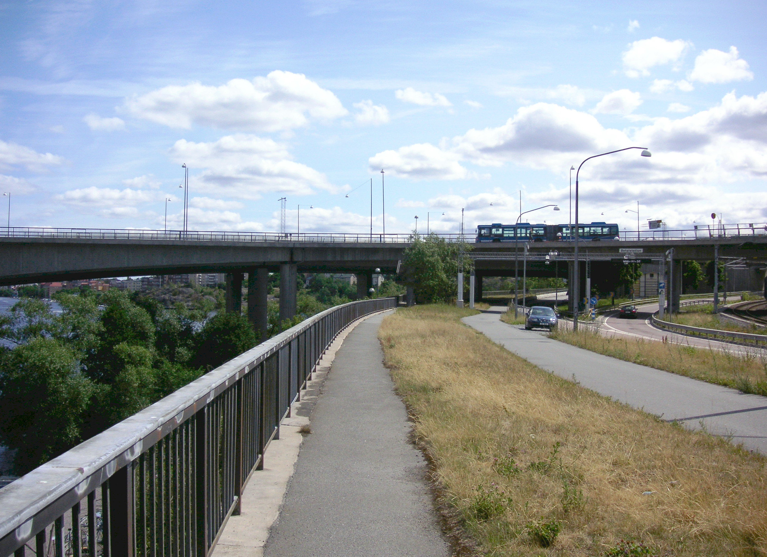 Brommagrenen, on Stora Essingen in Stockholm, built in 1960-s, planned as main road, still only local road, tramway added later